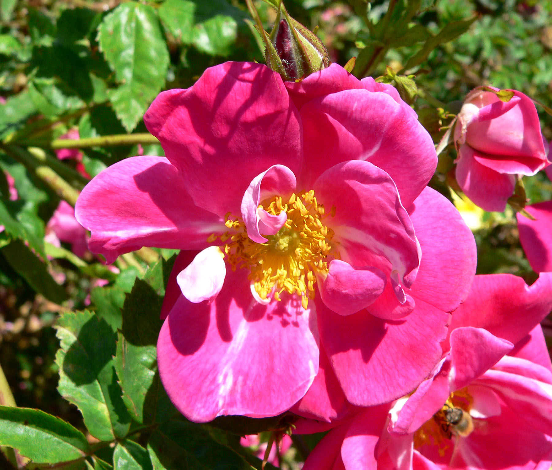 Rosa 'William Baffin' at the San Jose Heritage Rose Garden.